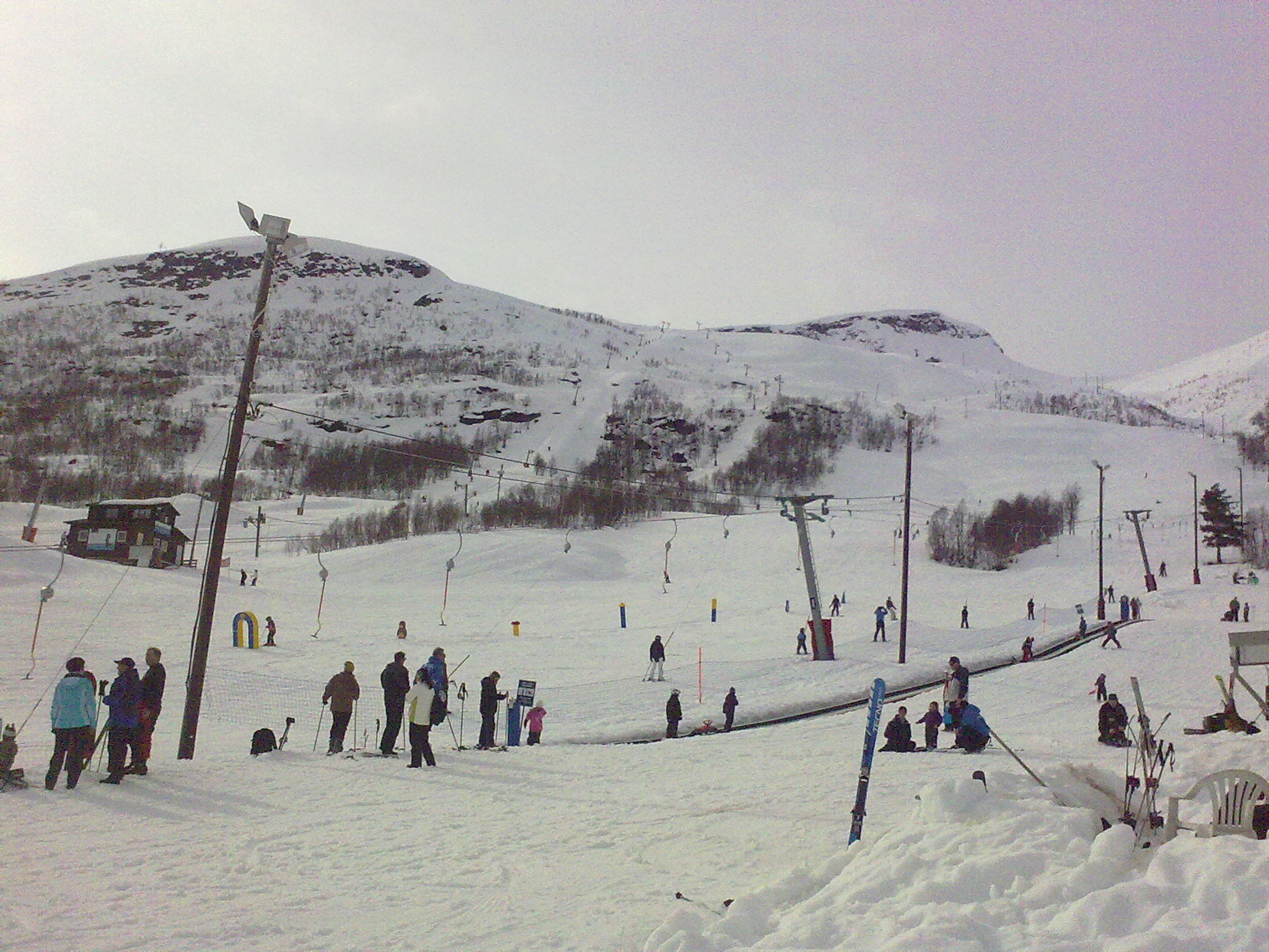 Stordalen skiing facility.